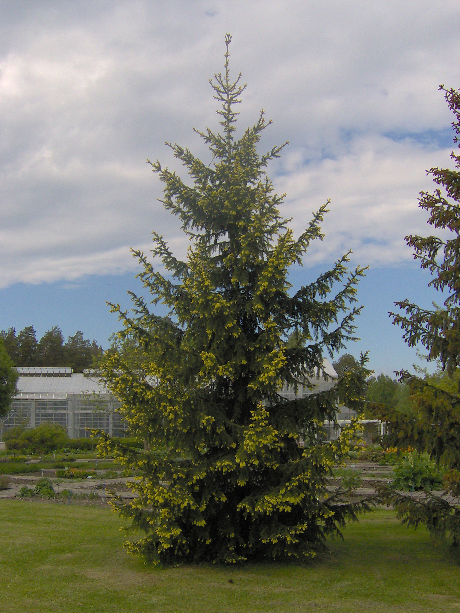 Picea abies f. aurea